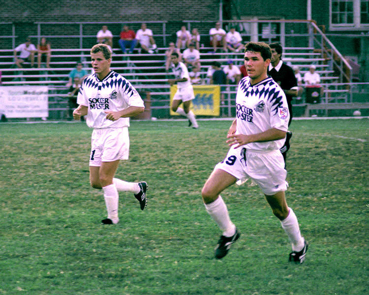 Scott McDoniel playing for the St. Louis Knights in 1995